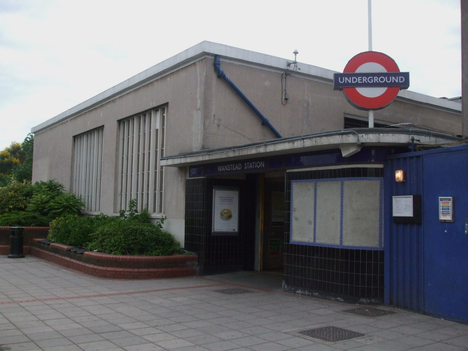 Wanstead tube station viewed from the northwest, showing the northern entrance.